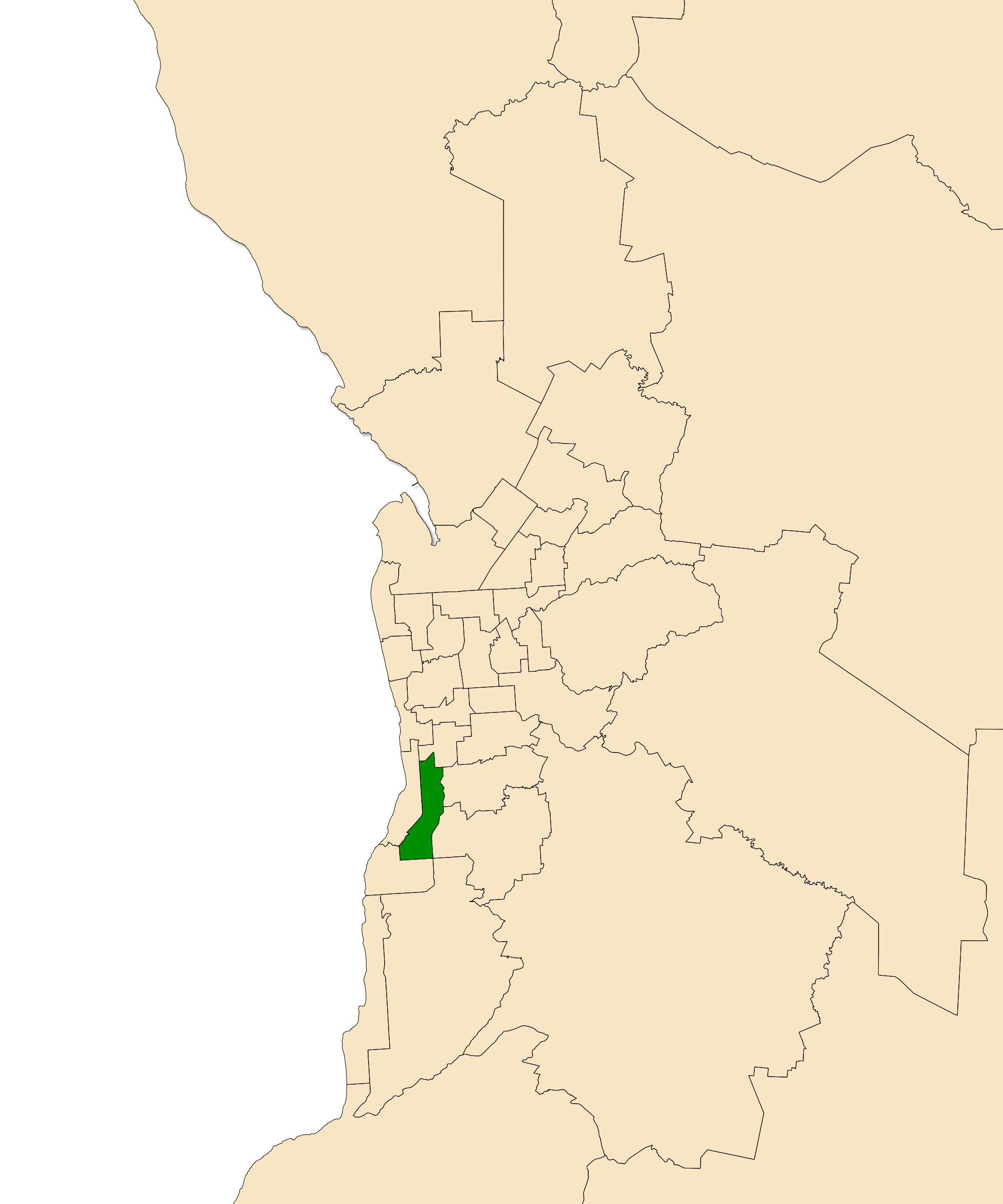 The South Australian electoral district of Mitchell, shown dark green in the Greater Adelaide area. Map derived from data at South Australia Department of Planning, Transport and Infrastructure, licensed under a Creative Commons Attribution 3.0 Australia Licence.